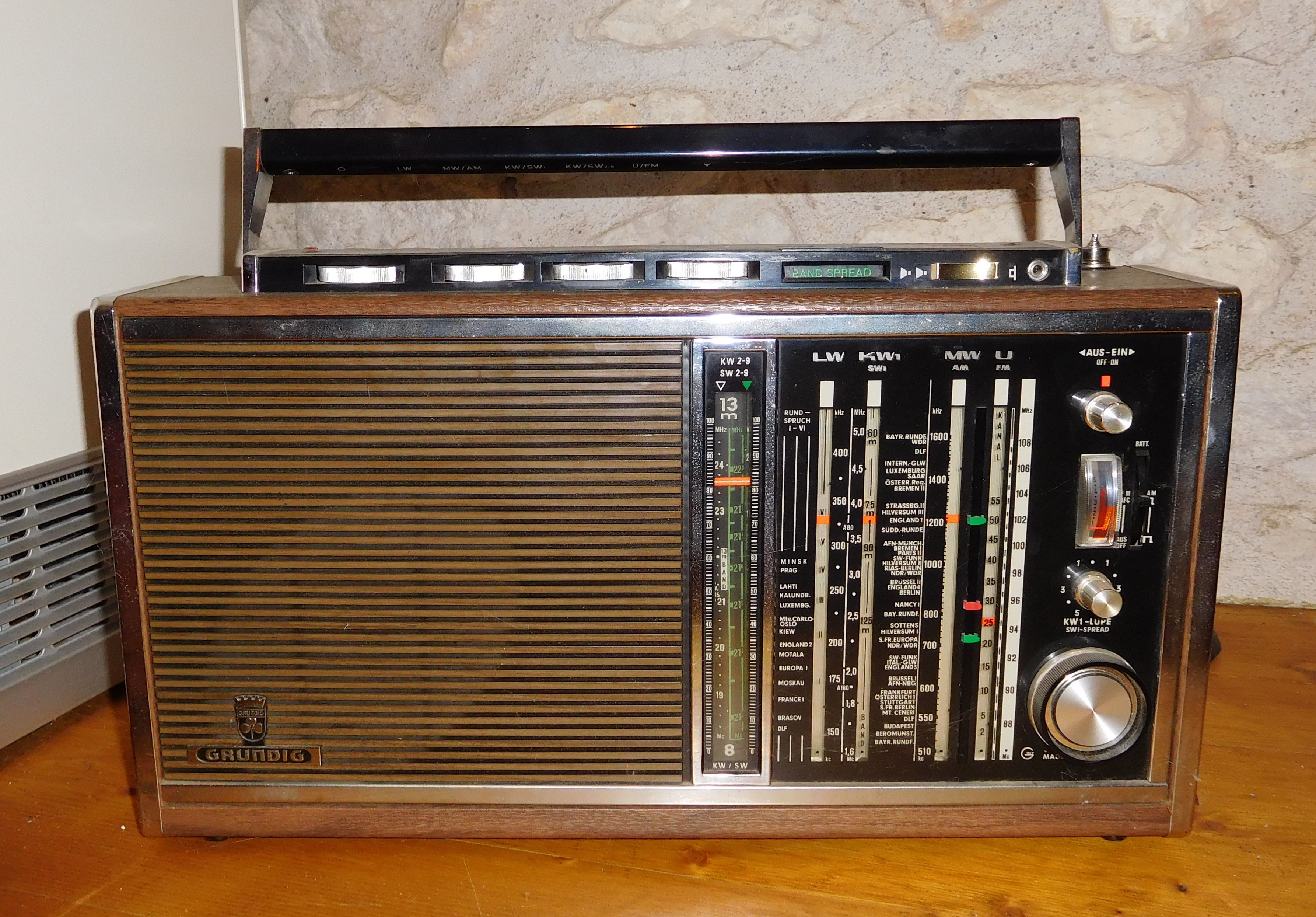 Analogue portable radio receiver Grundig Satellit 210 (also known as the Satellit Transistor 6001) for LW, MW, SW and FM; 1969-1971; "Wood-Like" style model.